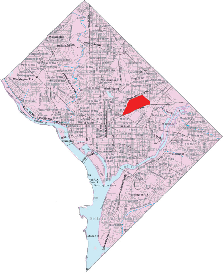 This image is a modified version of a self-generated reference map from the U.S. Census Bureau's American Factfinder at by Wikipedia user Msclguru.